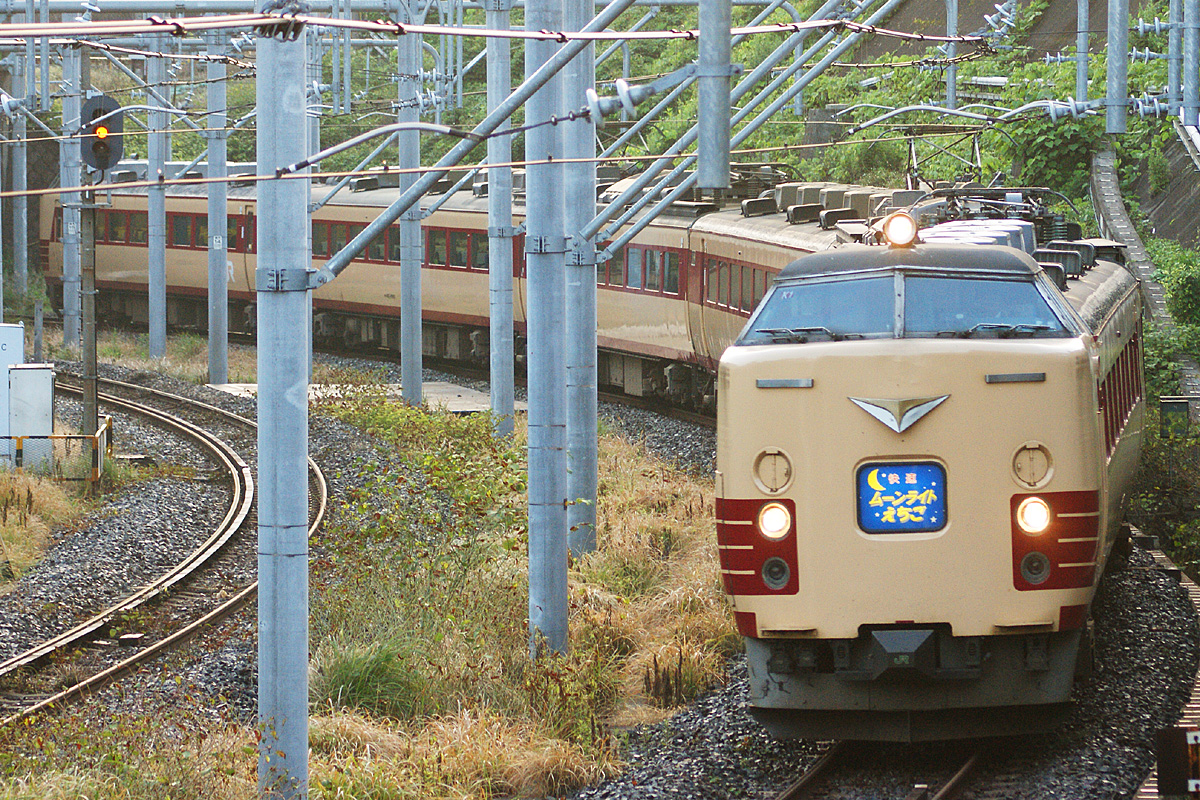 JR East (previously JNR) Series 485 EMU, Rapid "Moonlight Echigo".